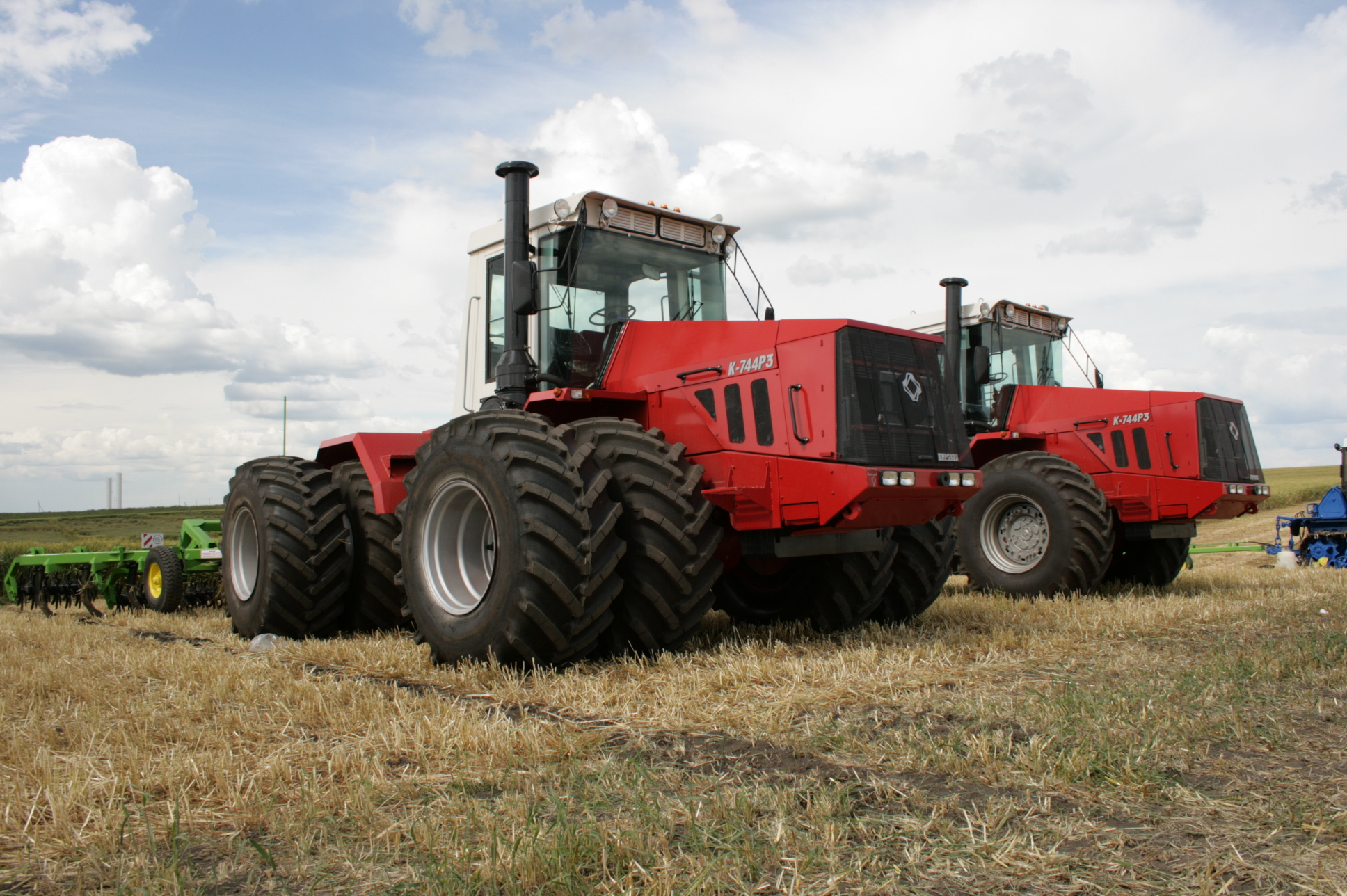 "Kirovets" K-744R3